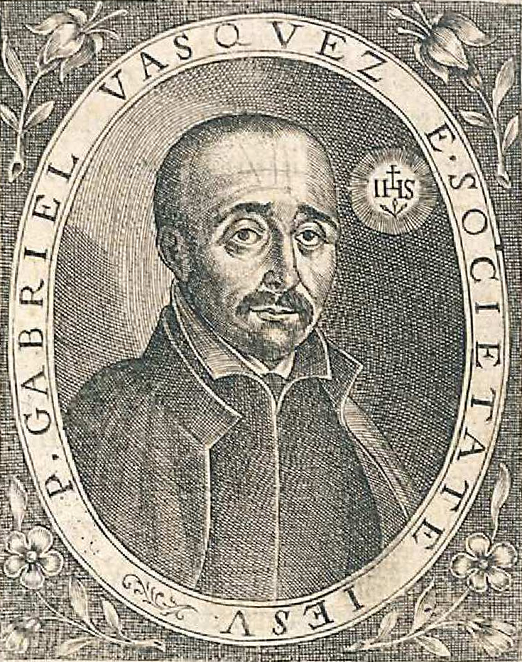 Gabriel Vázquez. Jhs. Theologian, b. at Belmonte (Cuenca, Spain) 1549 or 1551; d. at Alcalá de Henares, 23 Sept., 1604. Entered the Society of Jesus on 9 April, 1569. Benedict XIV called him the luminary of theology.